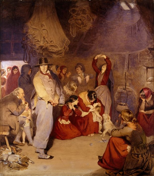 The Aran Fishermans Child